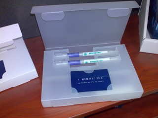 MyGene Genetic Testing Kit including 2 swabs for collecting buccal samples and ID card for customer.